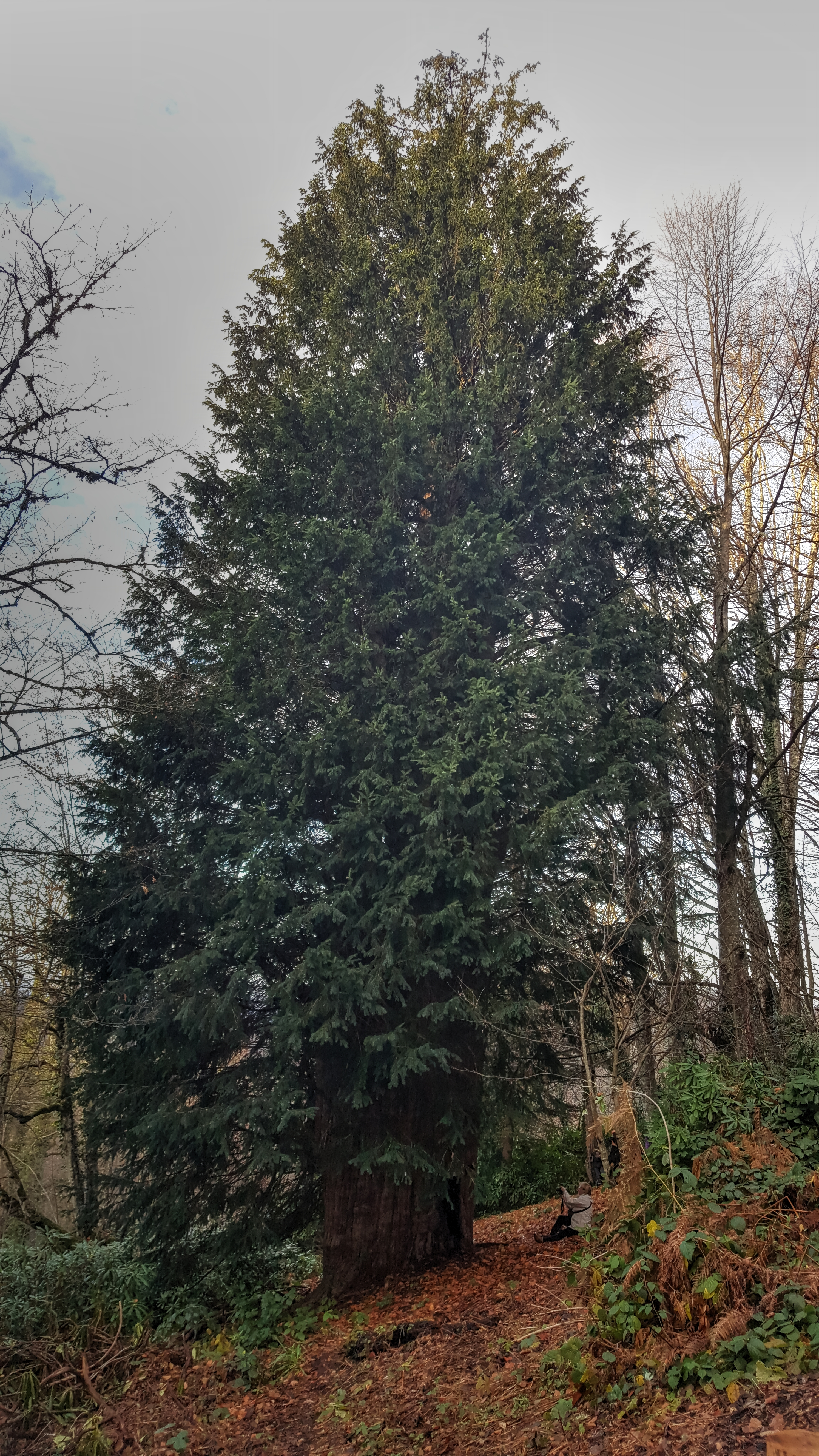 4112 year yew in Turkey. 5th oldest tree in the world.